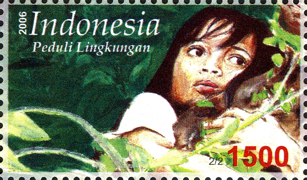 Stamps of Indonesia